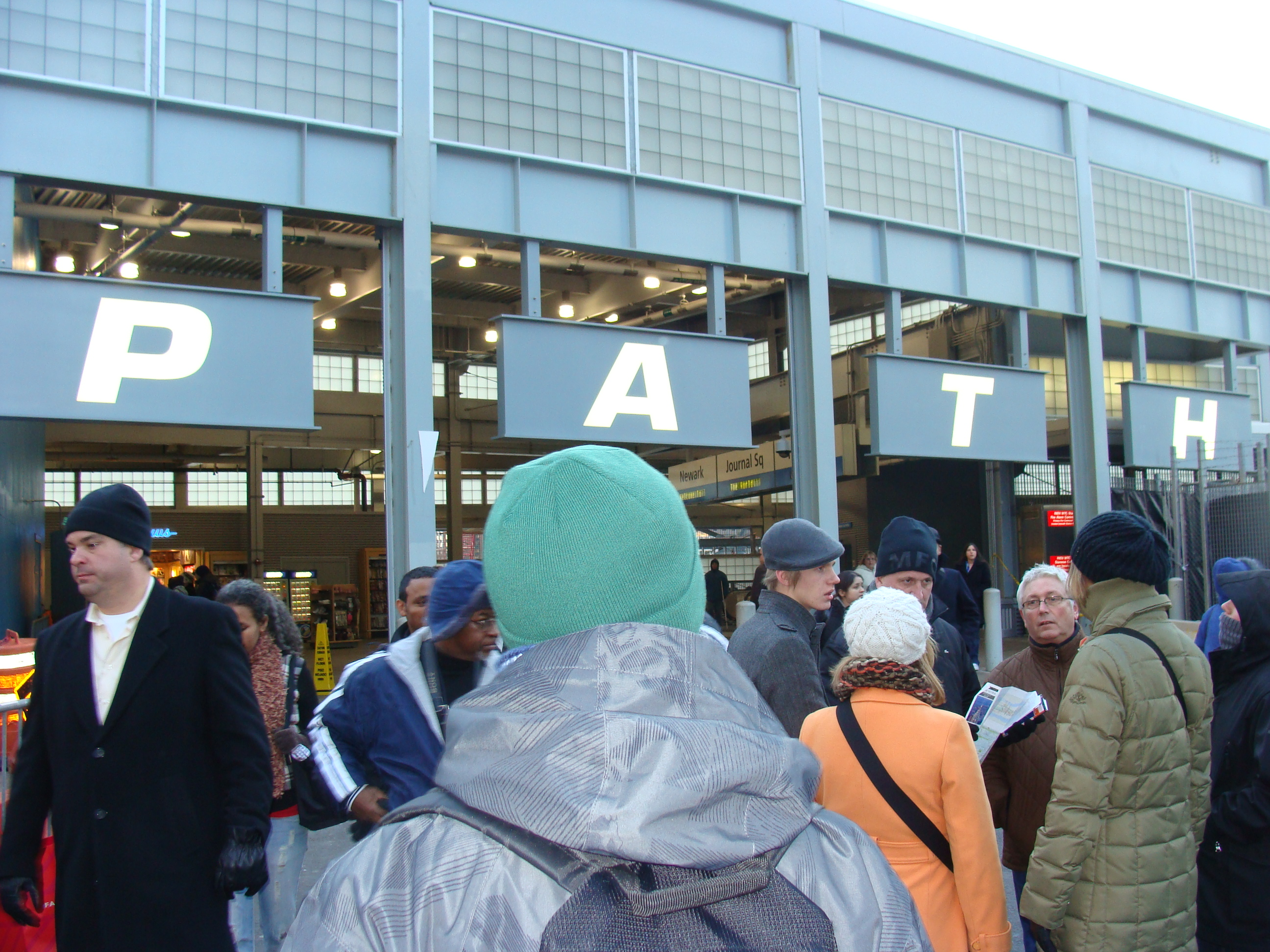 Entrance to the WTC PATH station in NYC, NY